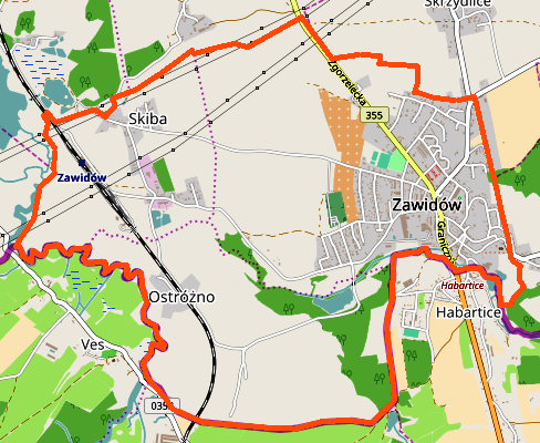 Location map.